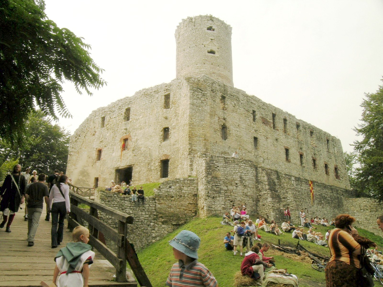 Ruins of castle Lipowiec in Babice, Poland, XIV century